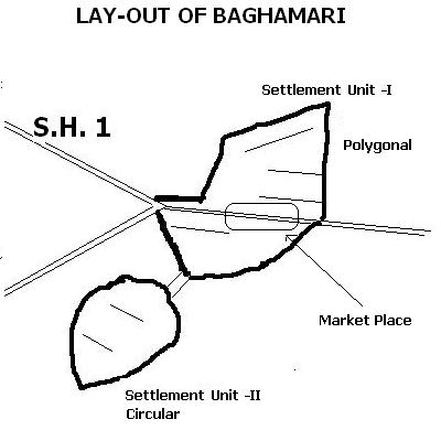 Layout of Baghamari. ଓଡ଼ିଆ: ବାଘମାରୀର ମାନଚିତ୍ର.